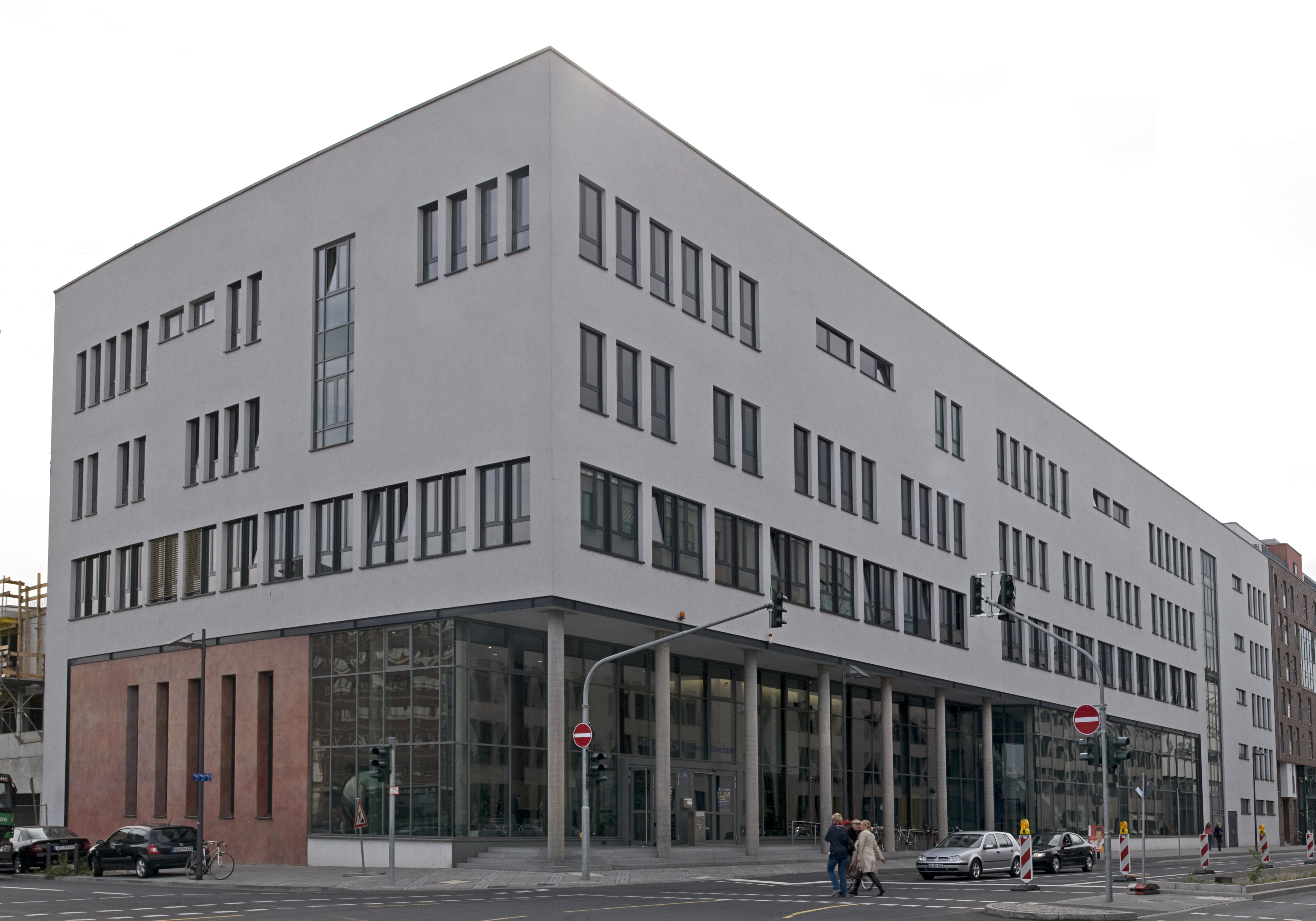 New building of Hoch's Conservatory in Frankfurt am Main